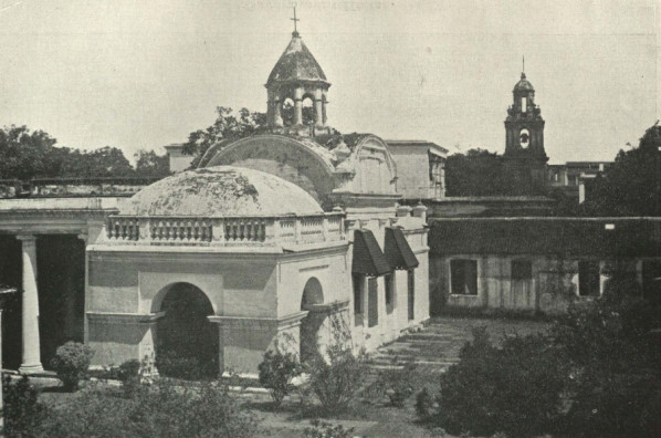 This Church, situated in Armenian Street, was opened in 1712.